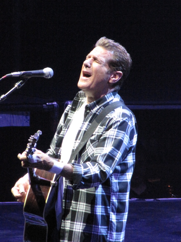 The Eagles in concert - December 18, 2010 Melbourne Australia - Glenn Frey